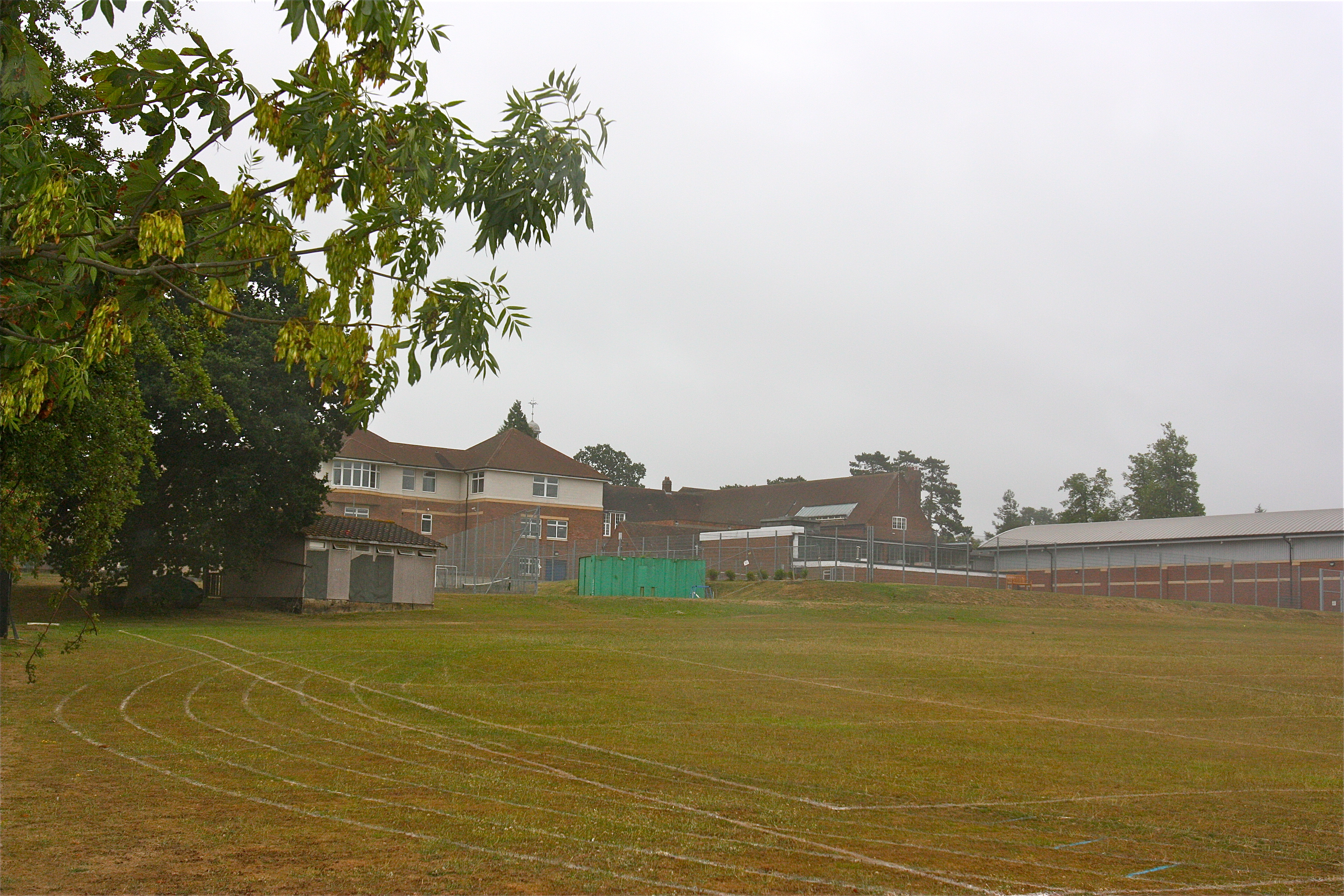 The Judd School playing fields to the west of the site, with the Library Building in the background.